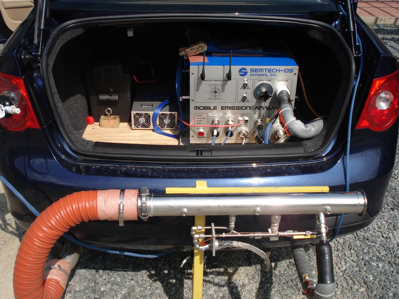 A Sensors Inc. PEMS installed in an automobile